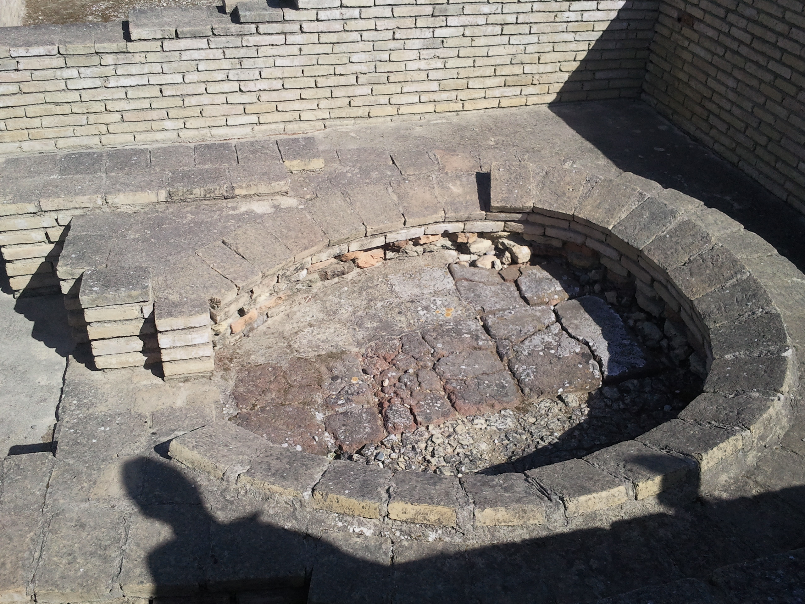 A bread oven, in Itálica archeological site, Santiponce, Andalucia, Spain